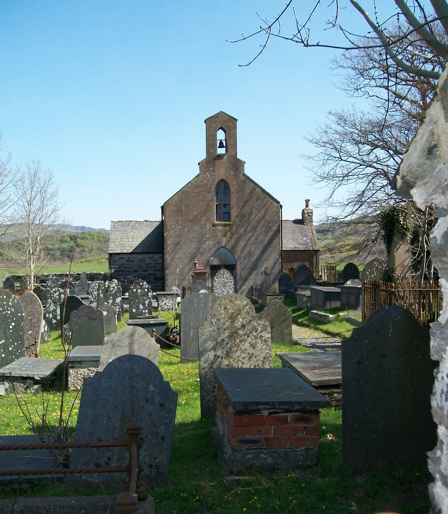 Eglwys Cynhaearn, Ynyscynhaearn, near to Pentrefelin, Gwynedd, Great Britain. This is a Victorian church built to replace a more ancient church occupying a dry island surrounded by fen - hence the name Ynys Cynhaearn. The saint's name is sometimes spelt as "Cynhaiarn". The church is no longer in regular use.